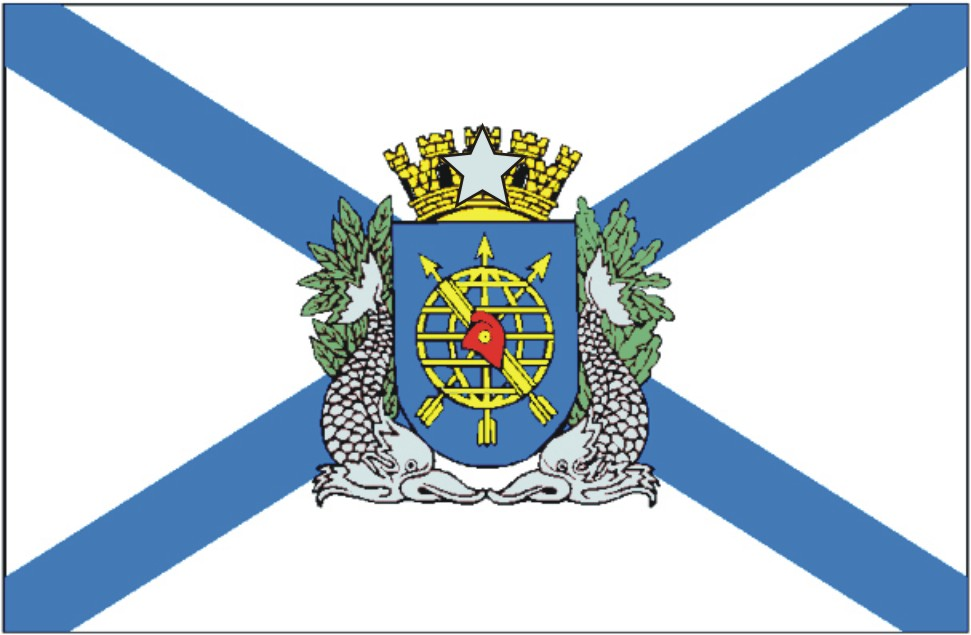 Former State of Guanabara Flag